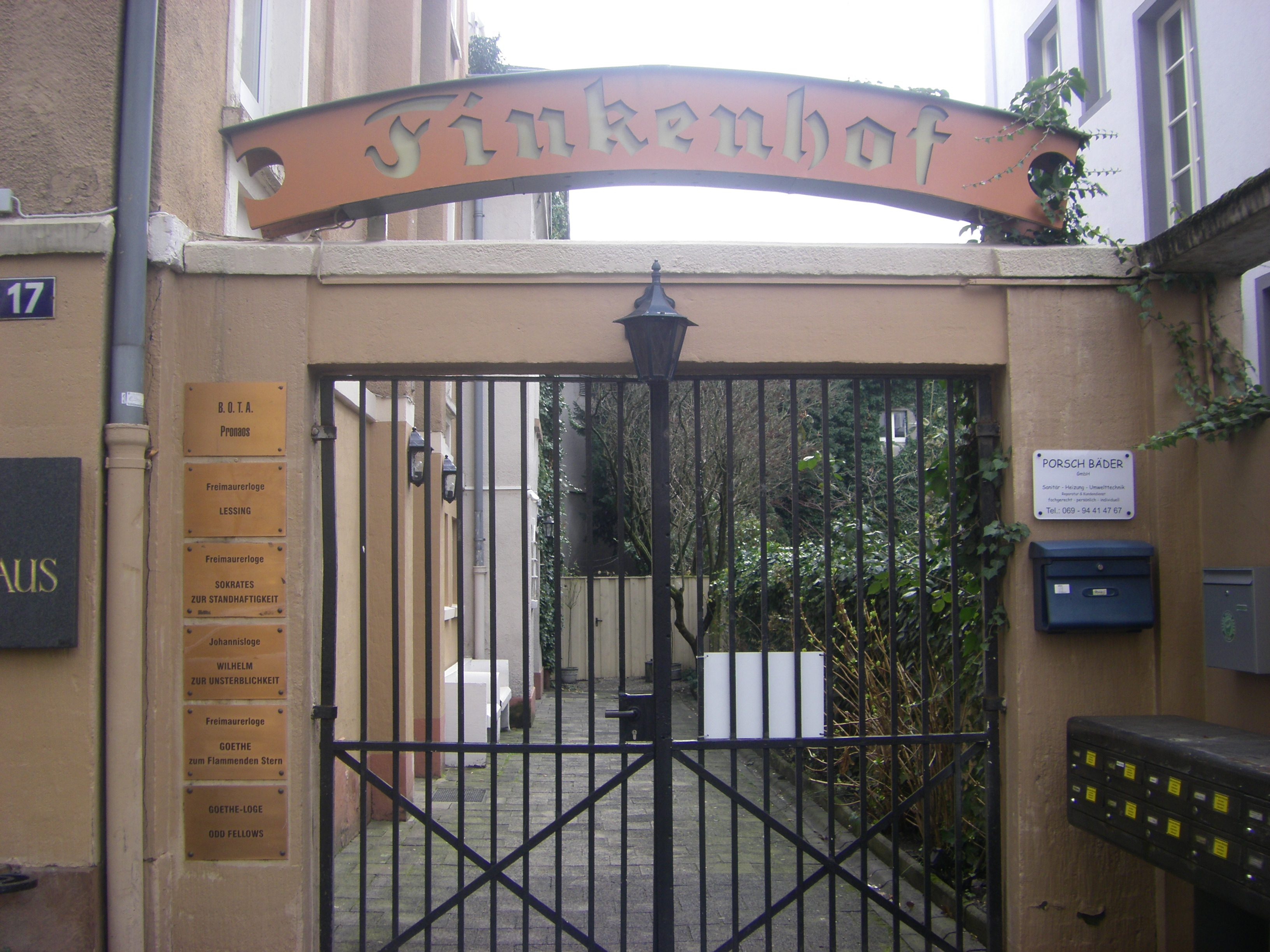 Lodge House, Frankfurt am Main (GER)